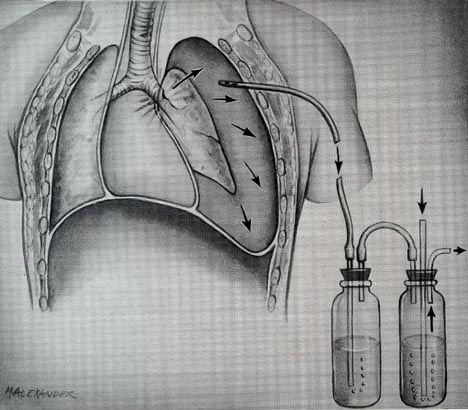 Main bronchus laceration. Caption reads, "FIGURE 5.—Schematic showing of results of laceration of main bronchus. This injury will always produce a pneumothorax with leakage of large amounts of air even under closed drainage with strong suction. Thoracotomy is indicated."